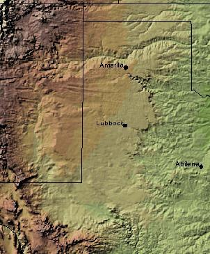 Shaded Relief Map of the Llano Estacado clipped from .pdf created by USGS National Map Viewer